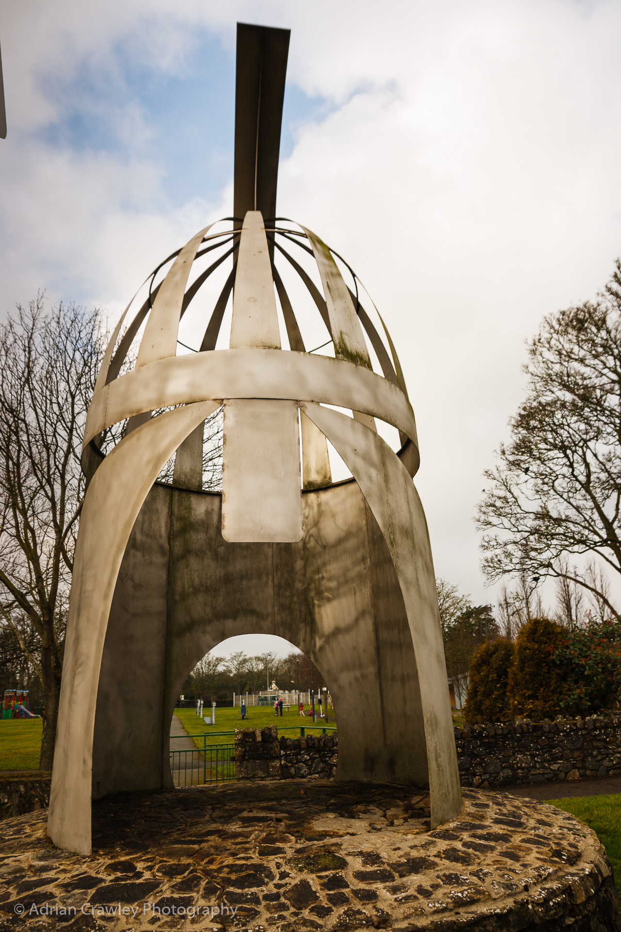 An Image of The Helmet Monument, Ardee